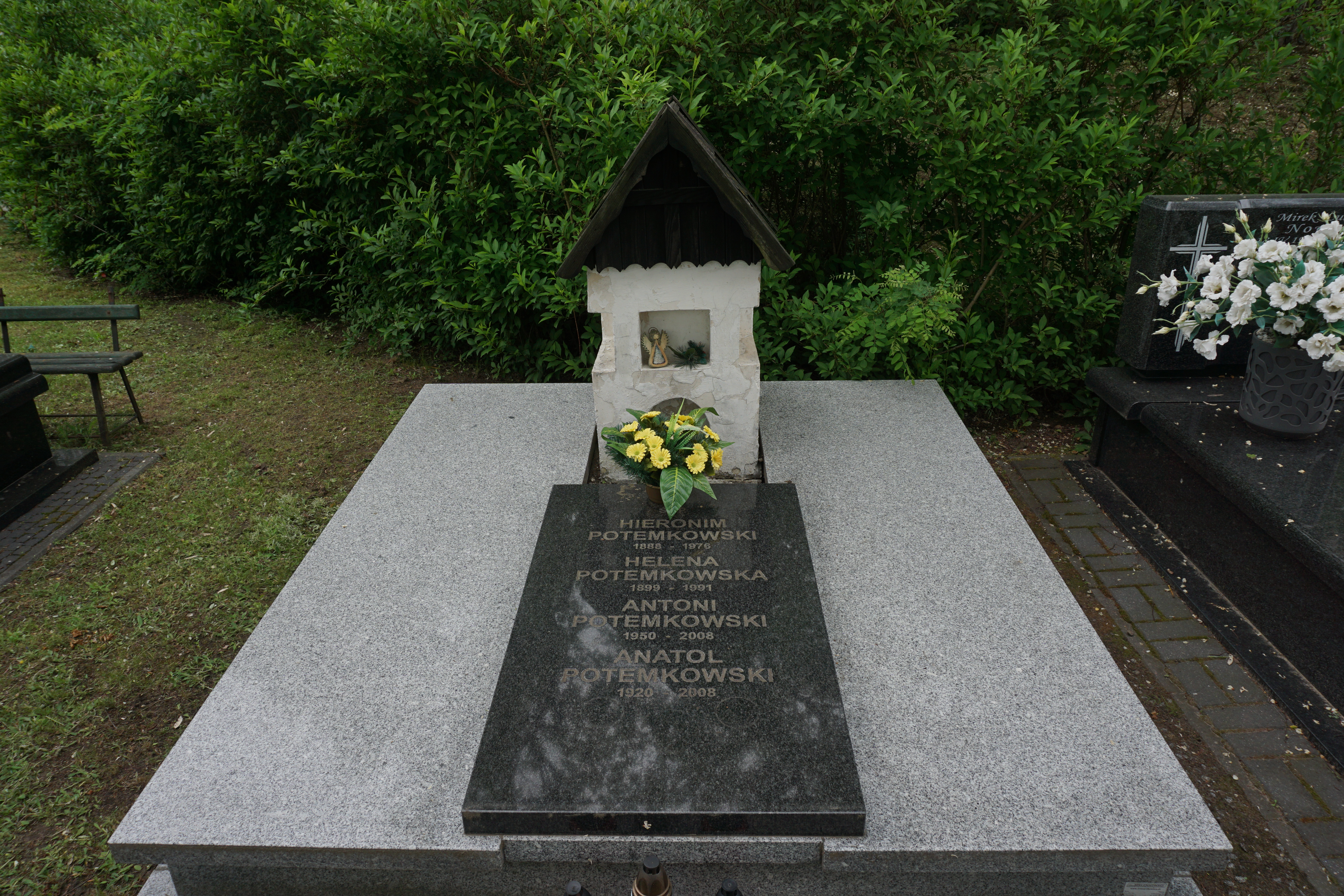 The grave of Anatol Potemkowski at the North Municipal Cemetery in Warsaw (section E-V-7, row 8, grave 4, 5)